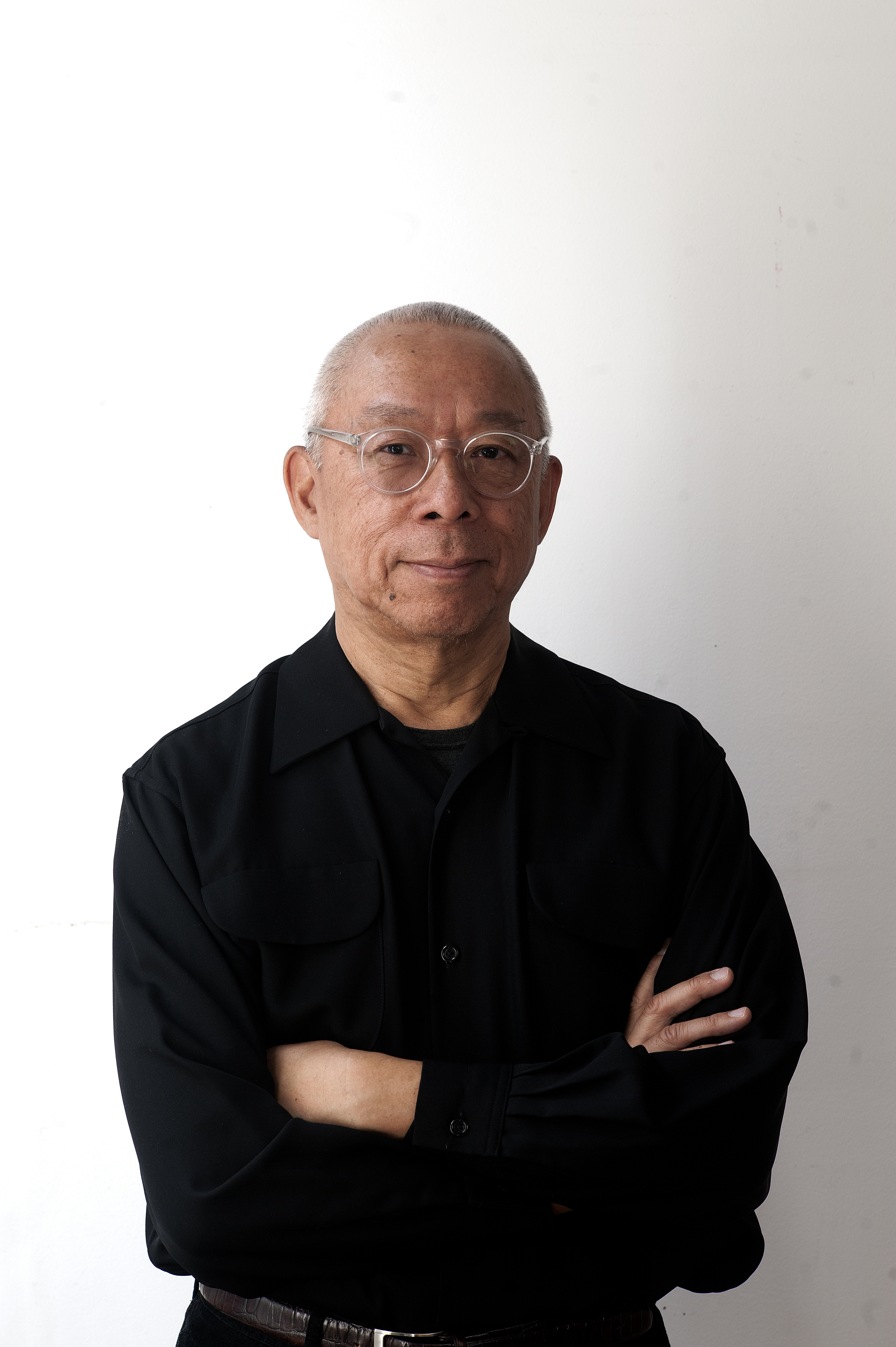 Ping Chong's portrait by Adam Nadel in 2011